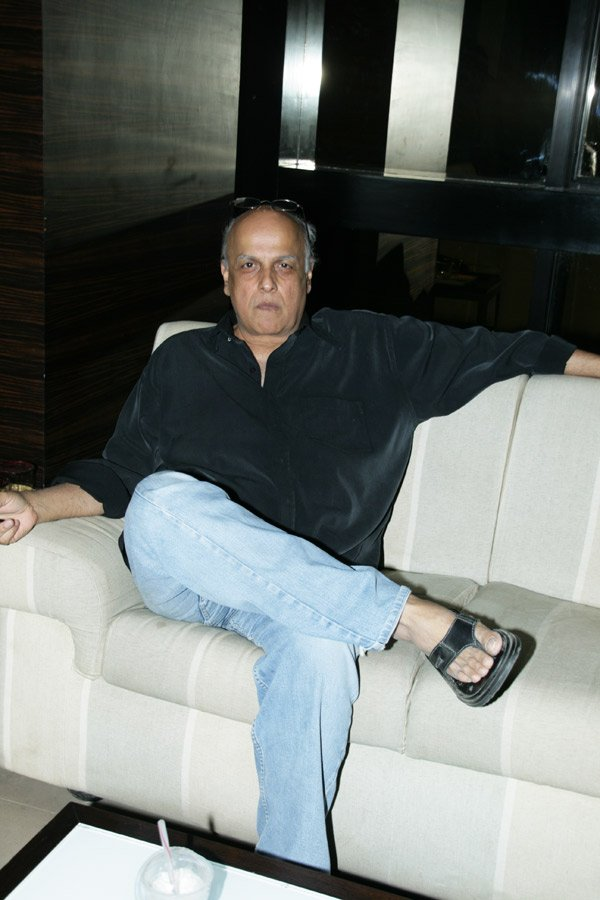 Percept Picture Company and Vishesh Films' press conference